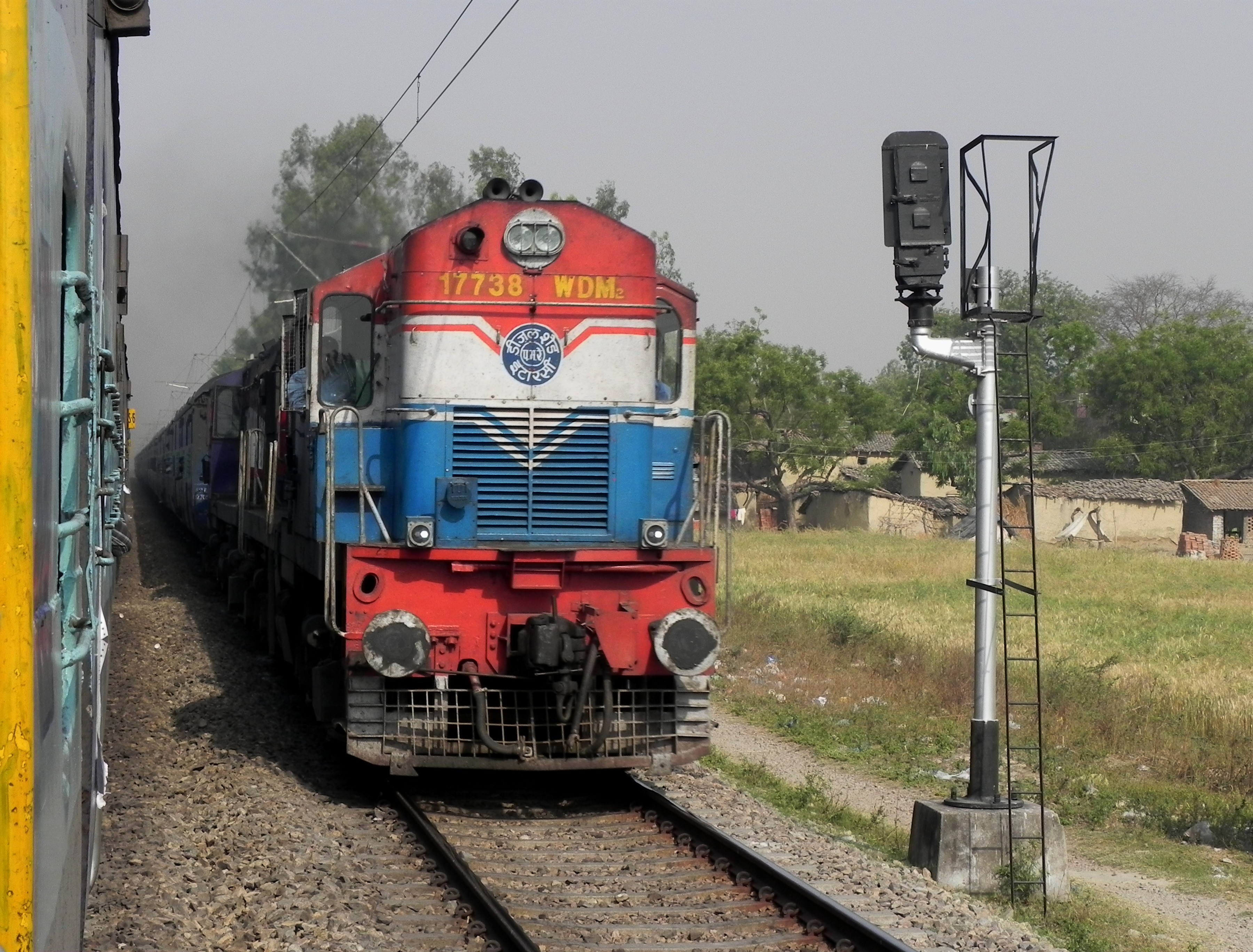 ET based WDM-2 loco - 17738 alongwith a WDM-3A shedmate approaches Meja Road with Varanasi bound 12945 (Surat-Varanasi) Tapti Ganga Express at its tow !!